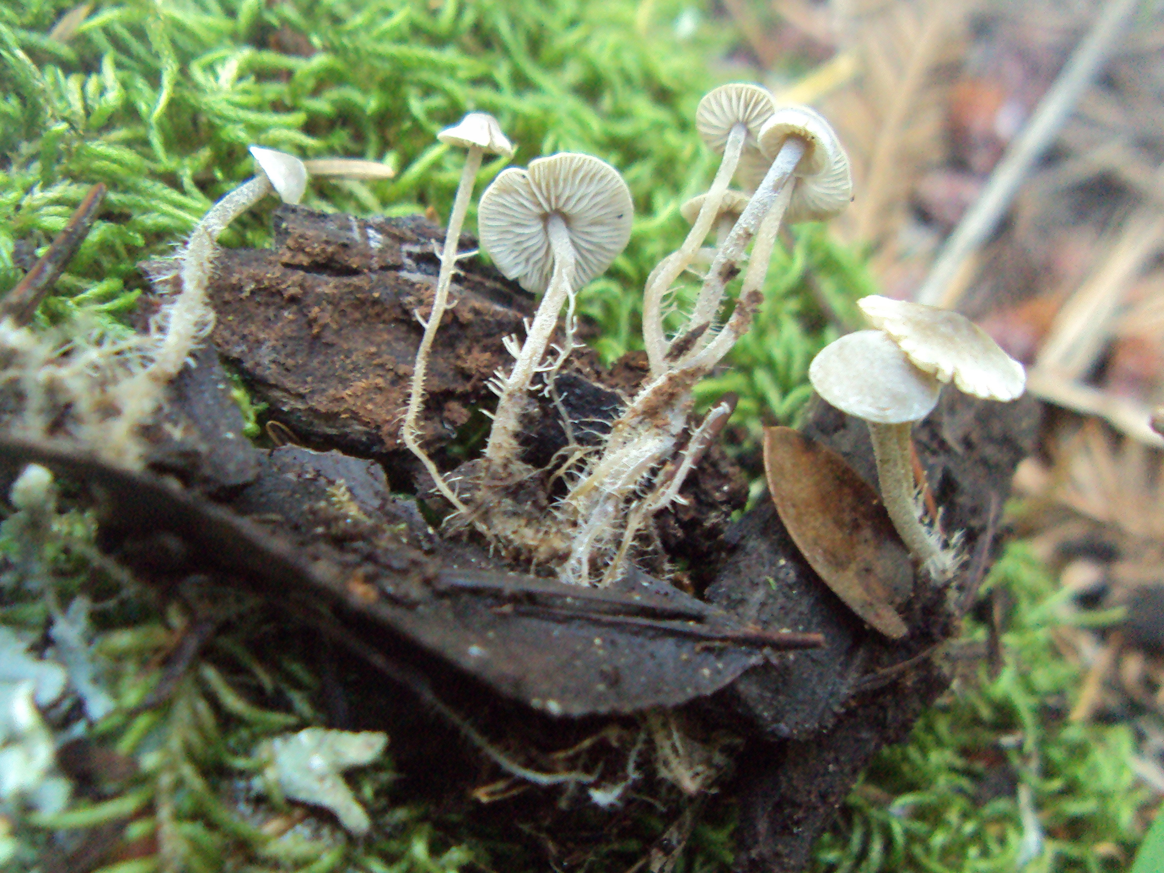 The mushroom Dendrocollybia racemosa (Pers.) R.H. Petersen & Redhead. Specimen photographed in Mount Tamalpais, Marin Co., California.